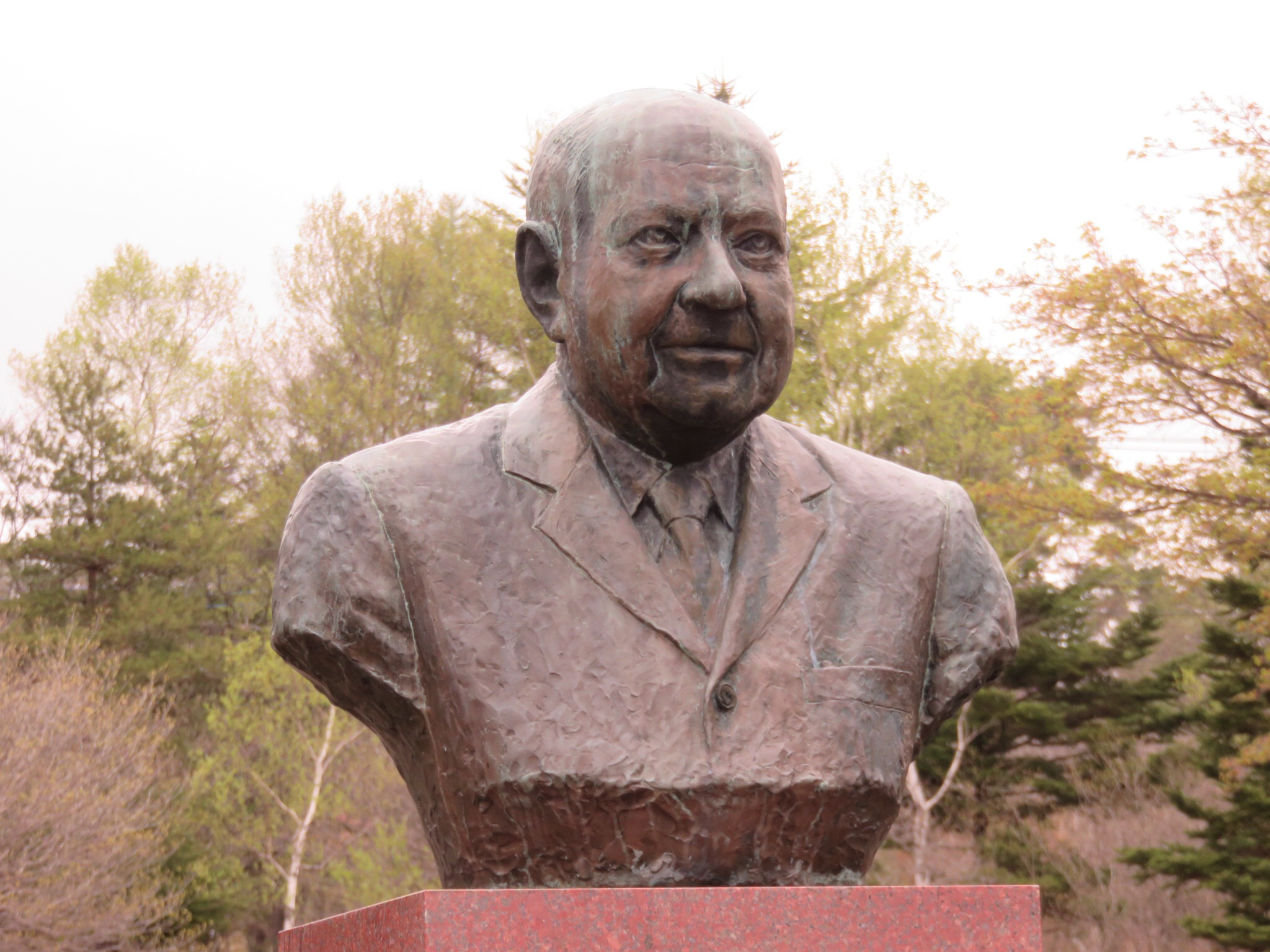 Paul Rusch Memorial, Seisen Ryo